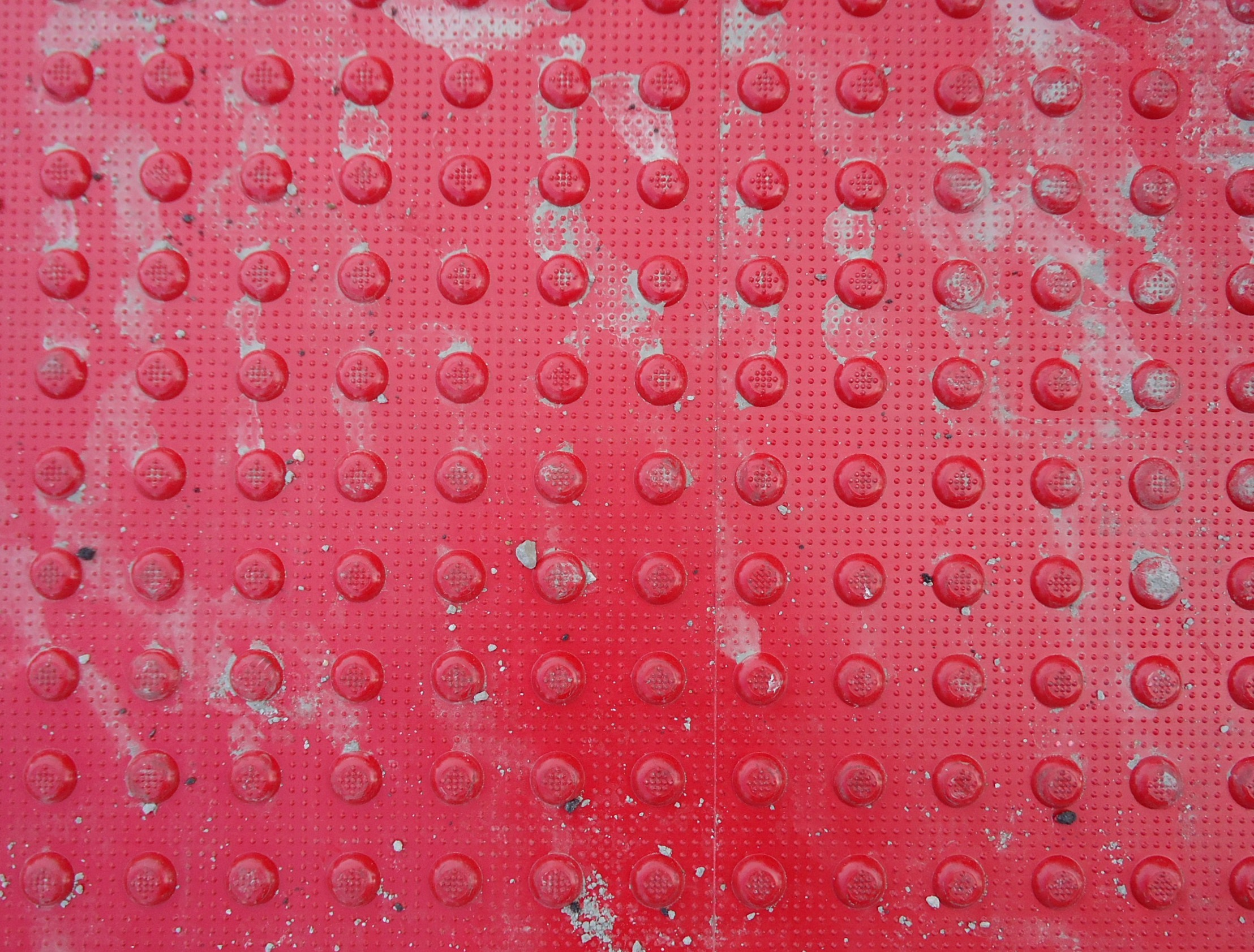 Exploration of surfaces and textures using a close-up camera angle. This red bumpy raised surface alerts pedestrians that they are about to go from a sidewalk to a street, or vice versa.